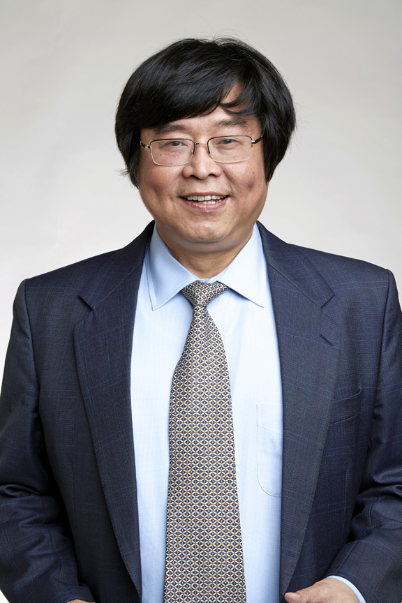 Wenfei Fan is a computer scientist and Professor of web data management at the University of Edinburgh. His research investigates database theory and database systems. He is also the director of the International Center on Big Data at Beihang University, and the director of the Huawei-Edinburgh Joint Lab for Distributed Data Management and Processing Attribution: The Royal Society